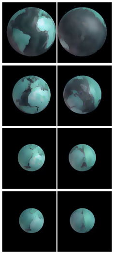 Continental matching on both Pacific and Atlantic sides as Earth size diminishes by losing ocean floor material. Illustrating the "Expanding Earth theory", an alternative for plate tectonics that is rejected by most of the scientific community. The right hand column, showing the expansion of the Southern Pacific angle, is based on later 3D models by Maxlow and Adams where a near perfect fit of the pacific landmasses was achieved with Australia breaking away from North America. Earlier models depicted it pulling away from South America.